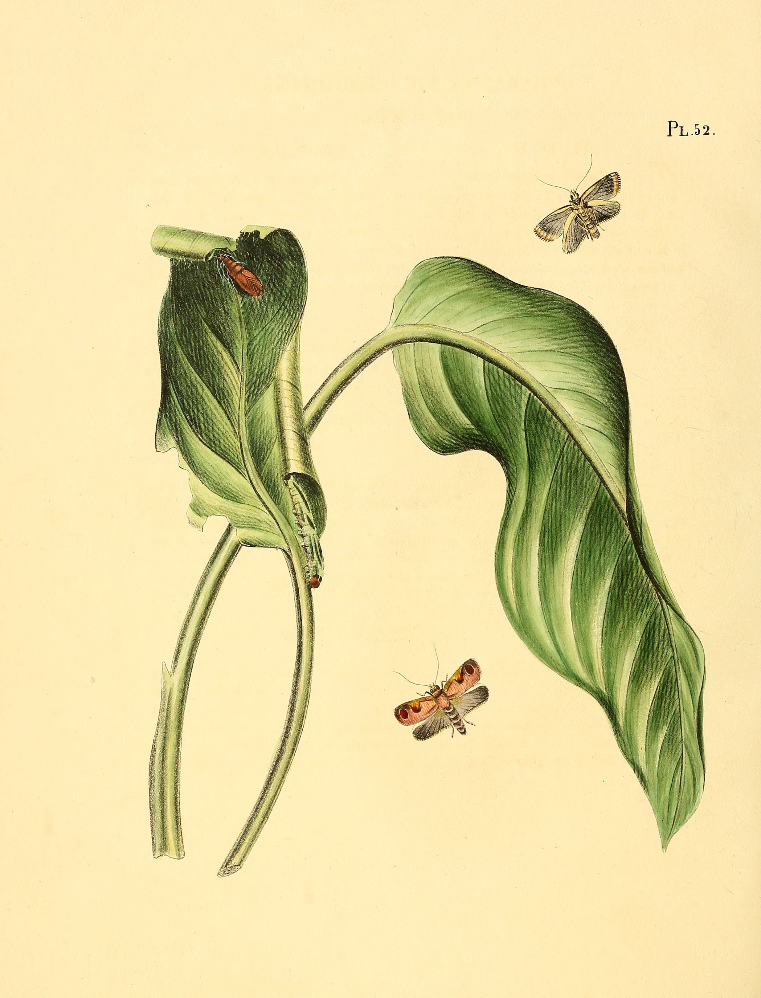 Illustration of: unidentified butterfly, described as Phalaena thunberghiana or thunbergiana (Phalaena was originally a subdivision of Lepidoptera, created by Carolus Linnaeus, and included moths in general.It is now obsolete, having been replaced by the various families currently under Lepidoptera.) The leaves are Montrichardia arborescens (Moko-moko plant)